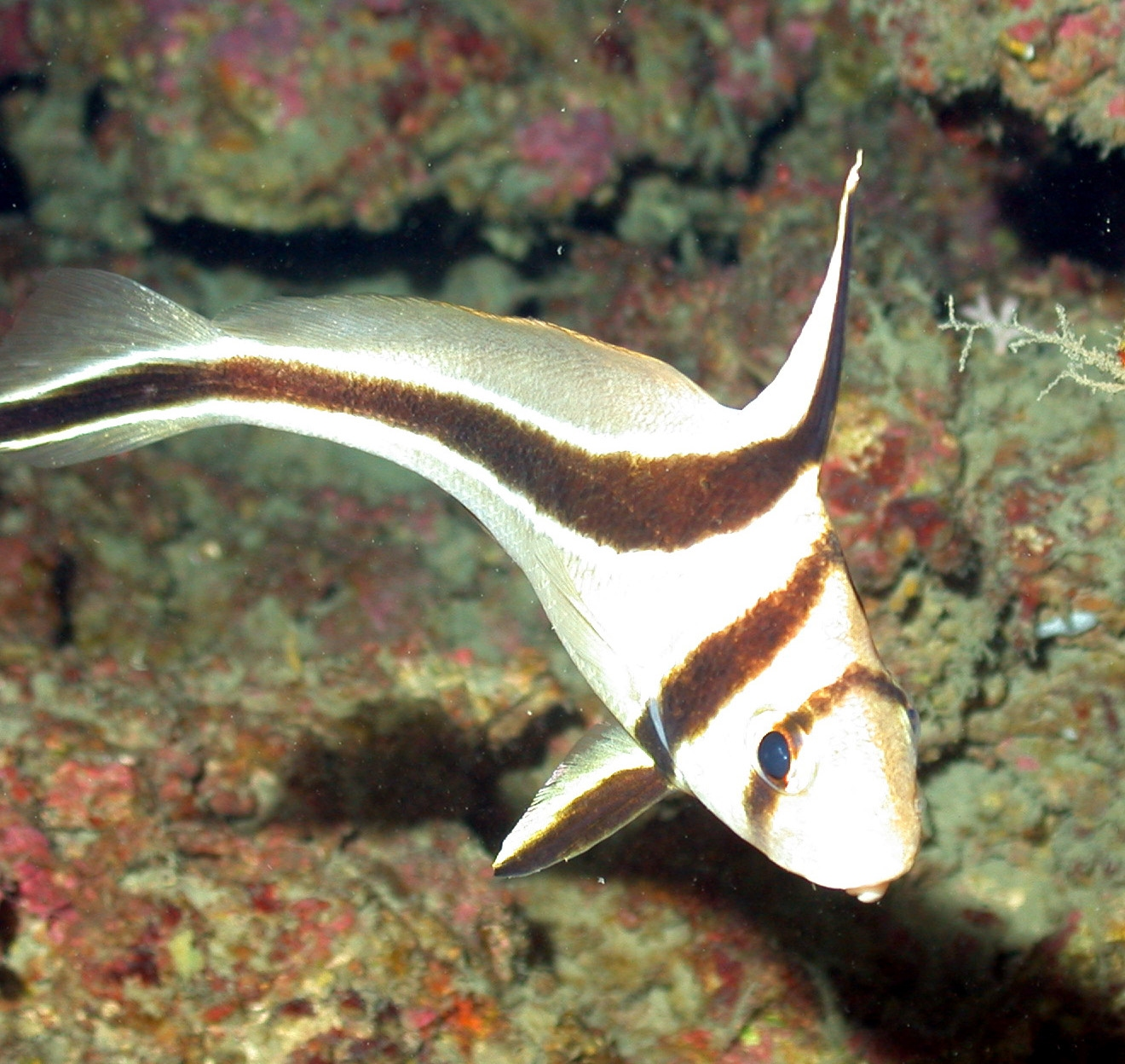 Equetus lanceolatus from Gulf of Mexico, West Bank, Flower Garden Banks NMS